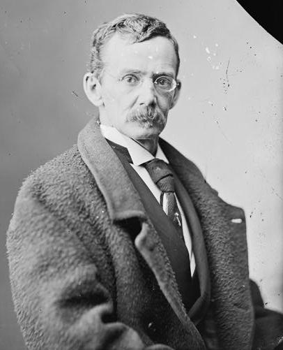 American politician John James Ingalls.